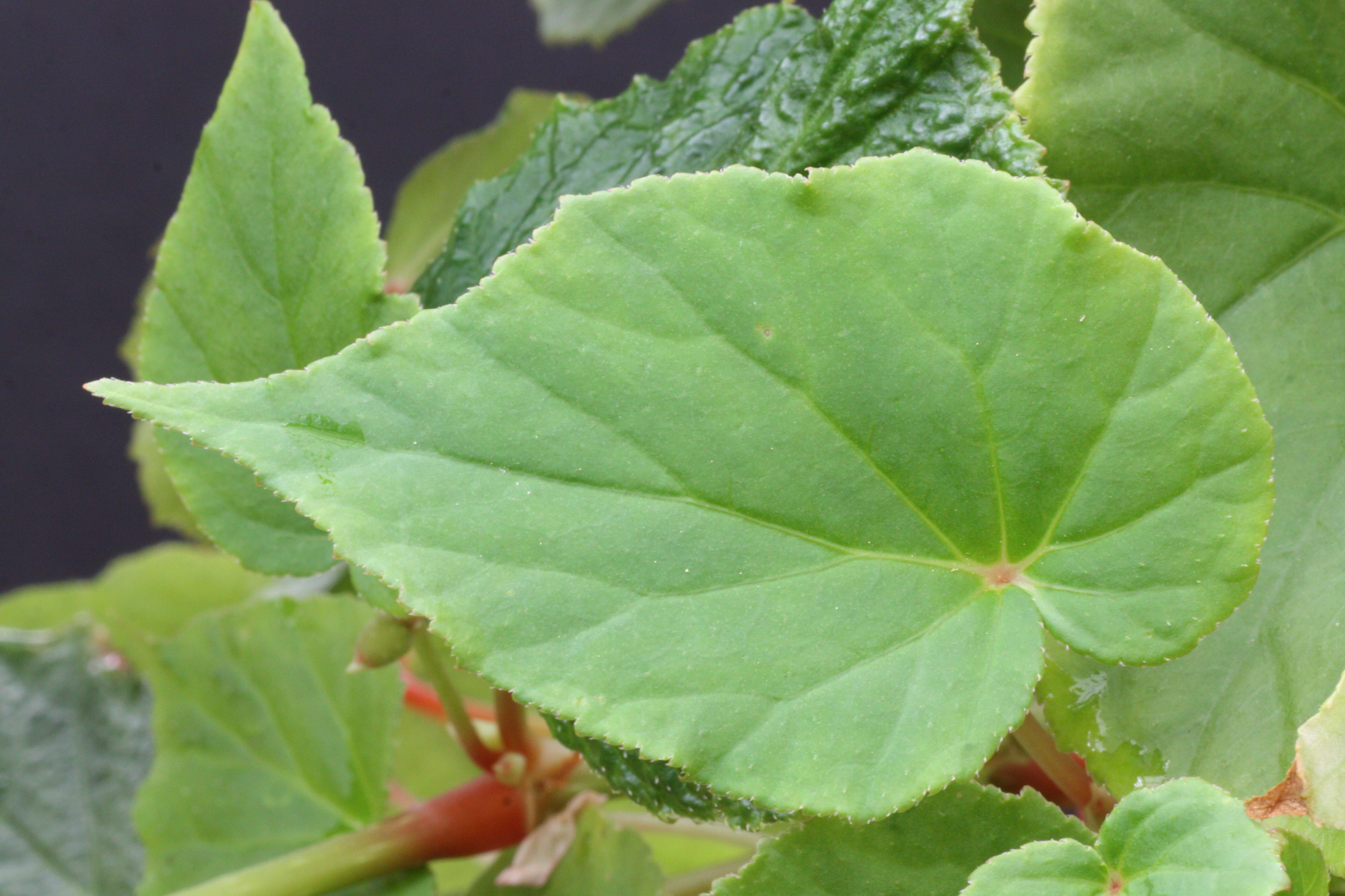 Begonia evansiana Andrews Family :Begoniaceae Accessions :20071207-64 National Botanical Garden of Belgium Meise Botanic Garden Native nameNationale Plantentuin van België / Jardin Botanique National de BelgiqueLocationDomein van Bouchout / Domaine de BouchoutNieuwelaan 381860 MeiseBelgiumCoordinates50° 55′ 42.28″ N, 4° 19′ 36.78″ E Established1826: established, 1870: became publicly owned,Web page control : Q3052500 VIAF: 159423716 ISNI: 0000 0001 2195 7598 LCCN: n50078011 NLA: 35880480 SELIBR: 120680 WorldCat institution QS:P195,Q3052500 Created under the volunteer photographer program at the National Botanical Garden of Belgium.